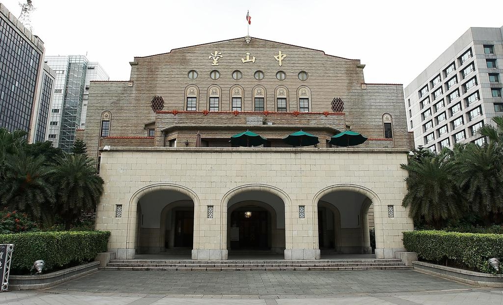 Zhongshan Hall in Taipei, Taiwan